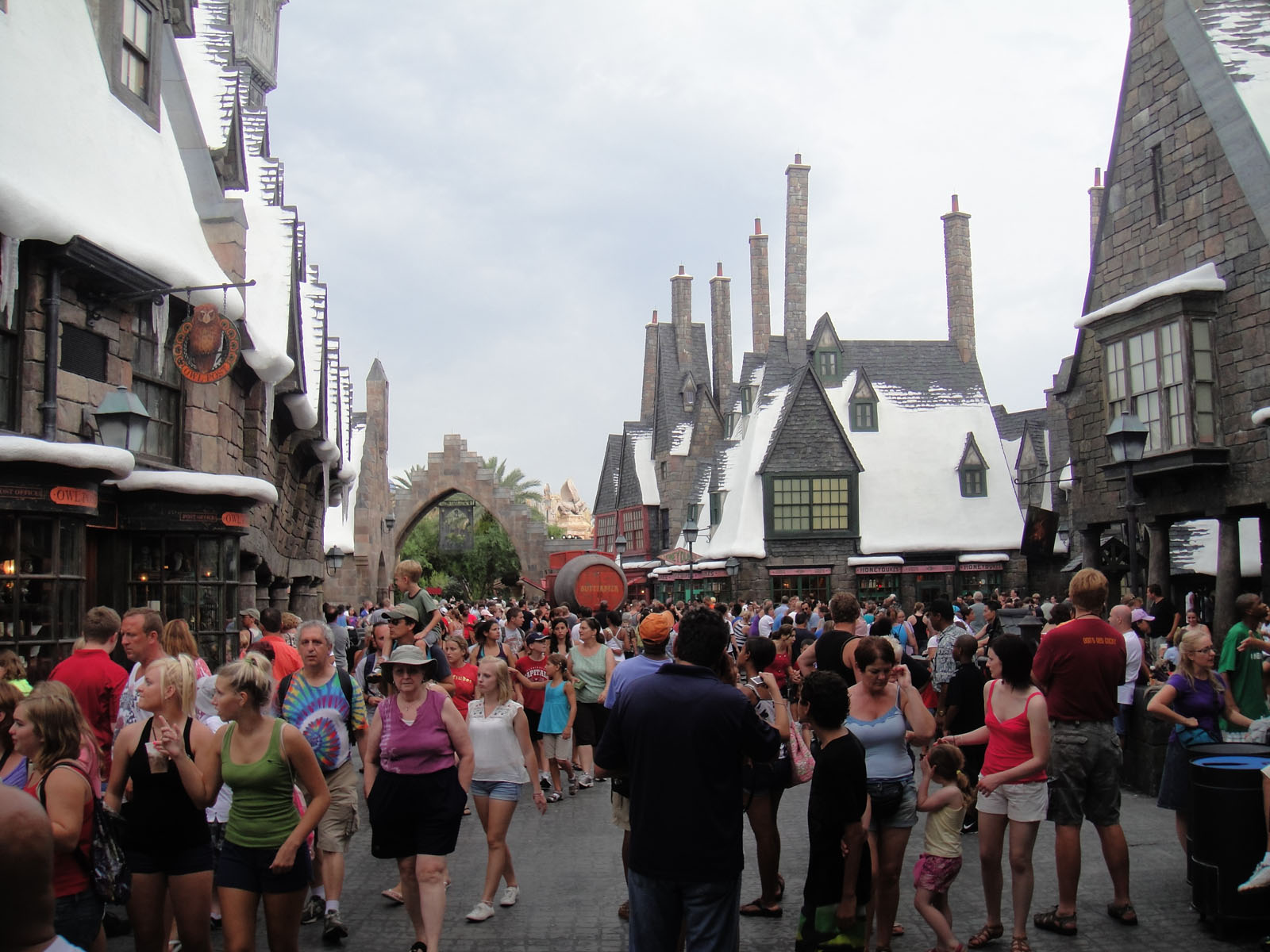 Wizarding World of Harry Potter - crowds of Muggles in Hogsmead